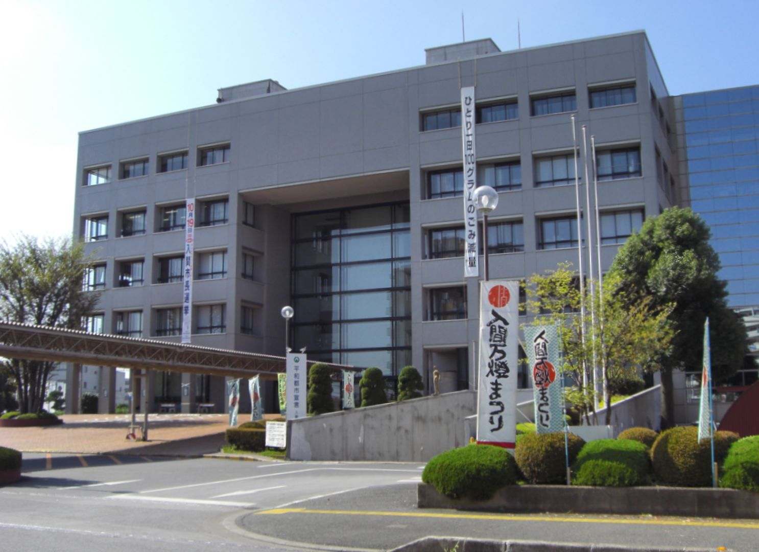 Iruma city office (Saitama, Japan)